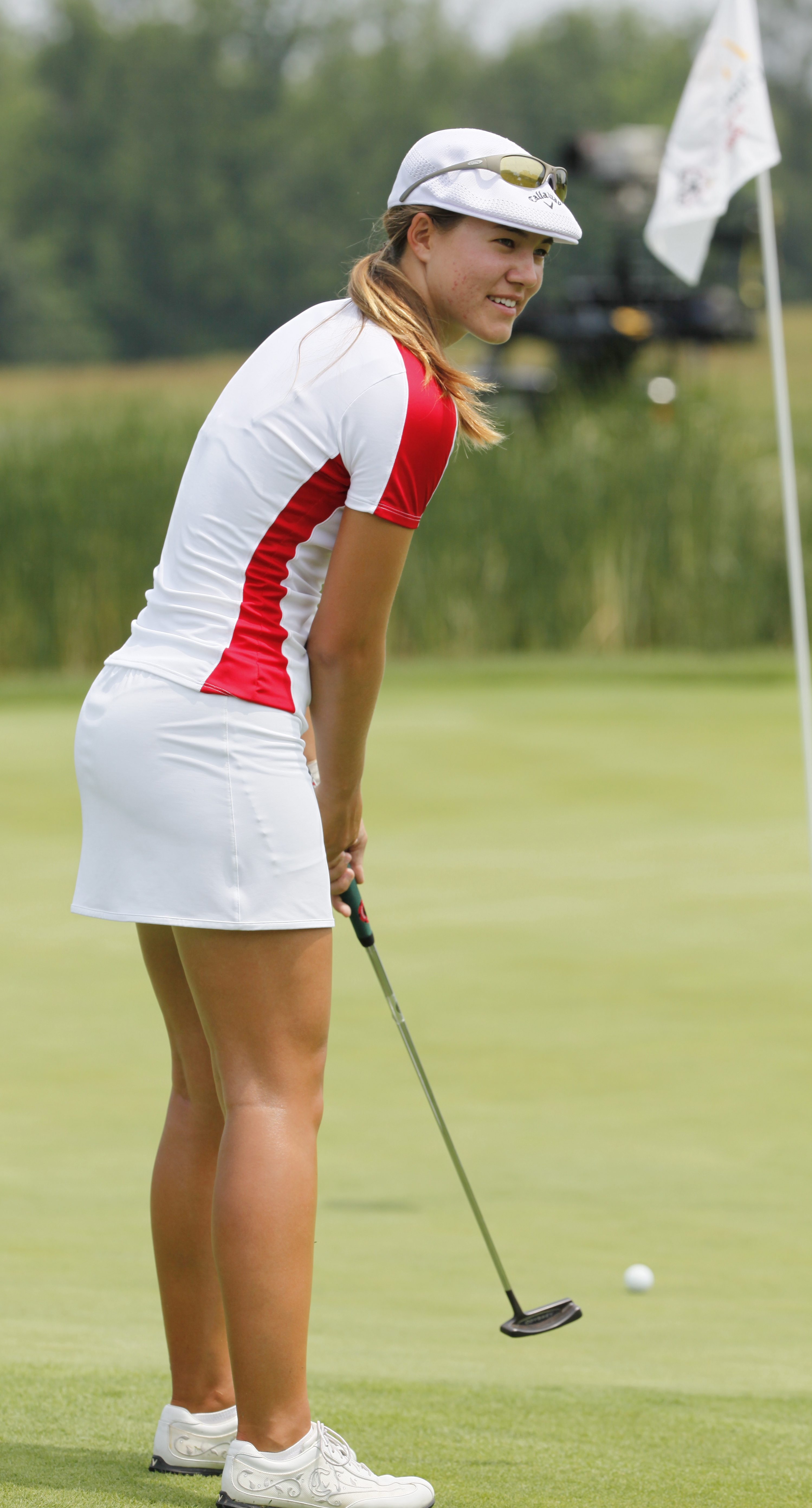 HAVRE DE GRACE, MD - JUNE 10: Vicky Hurst (USA) during practice round before 2009 LPGA Championship held at Bulle Rock Golf Course, on June 10, 2009 in Havre de Grace, Maryland. (Photo by Keith Allison)